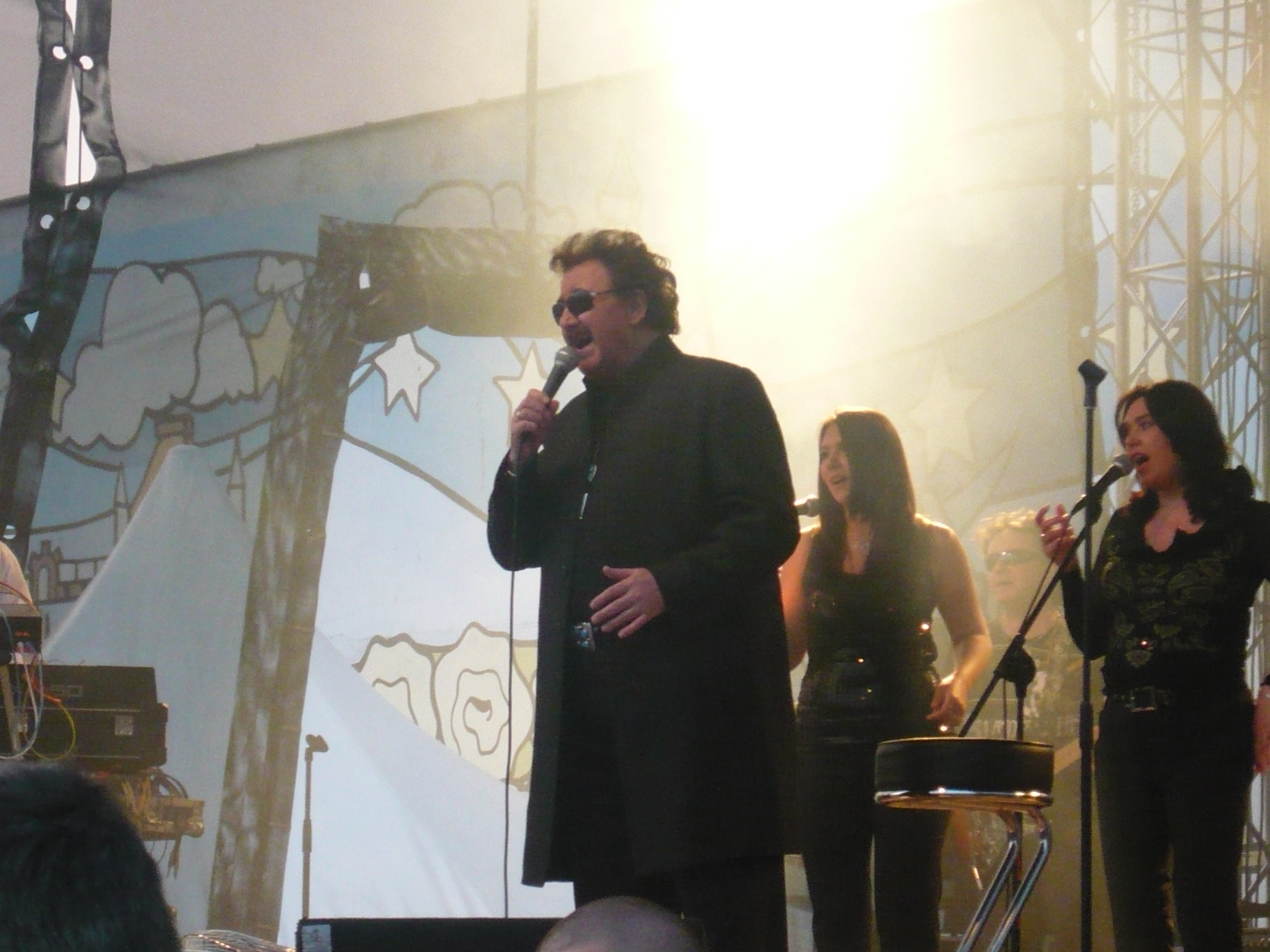 Krzysztof Krawczyk on concert in Włocławek.